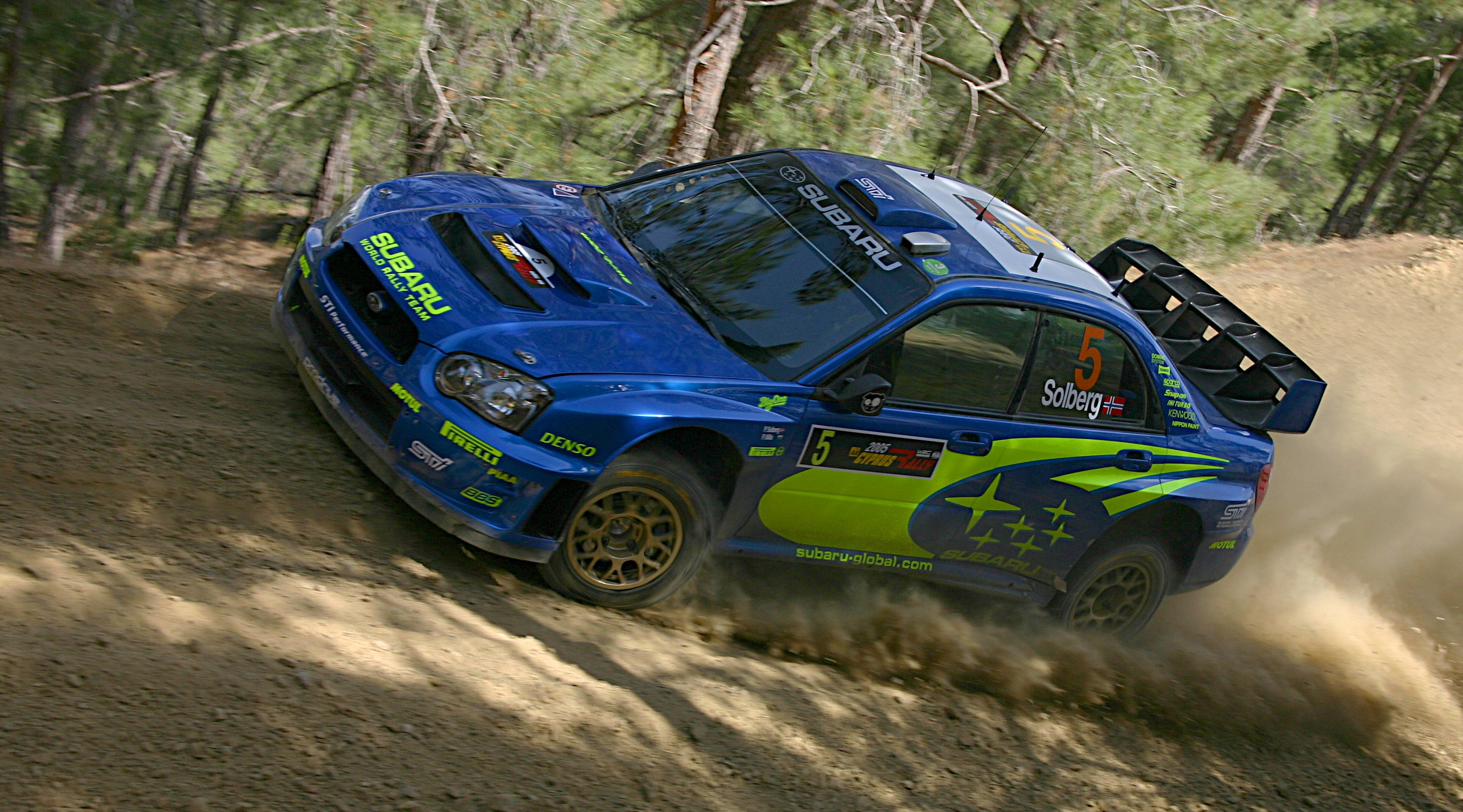 Petter Solberg driving his Subaru Impreza WRC at the 2005 Cyprus Rally.